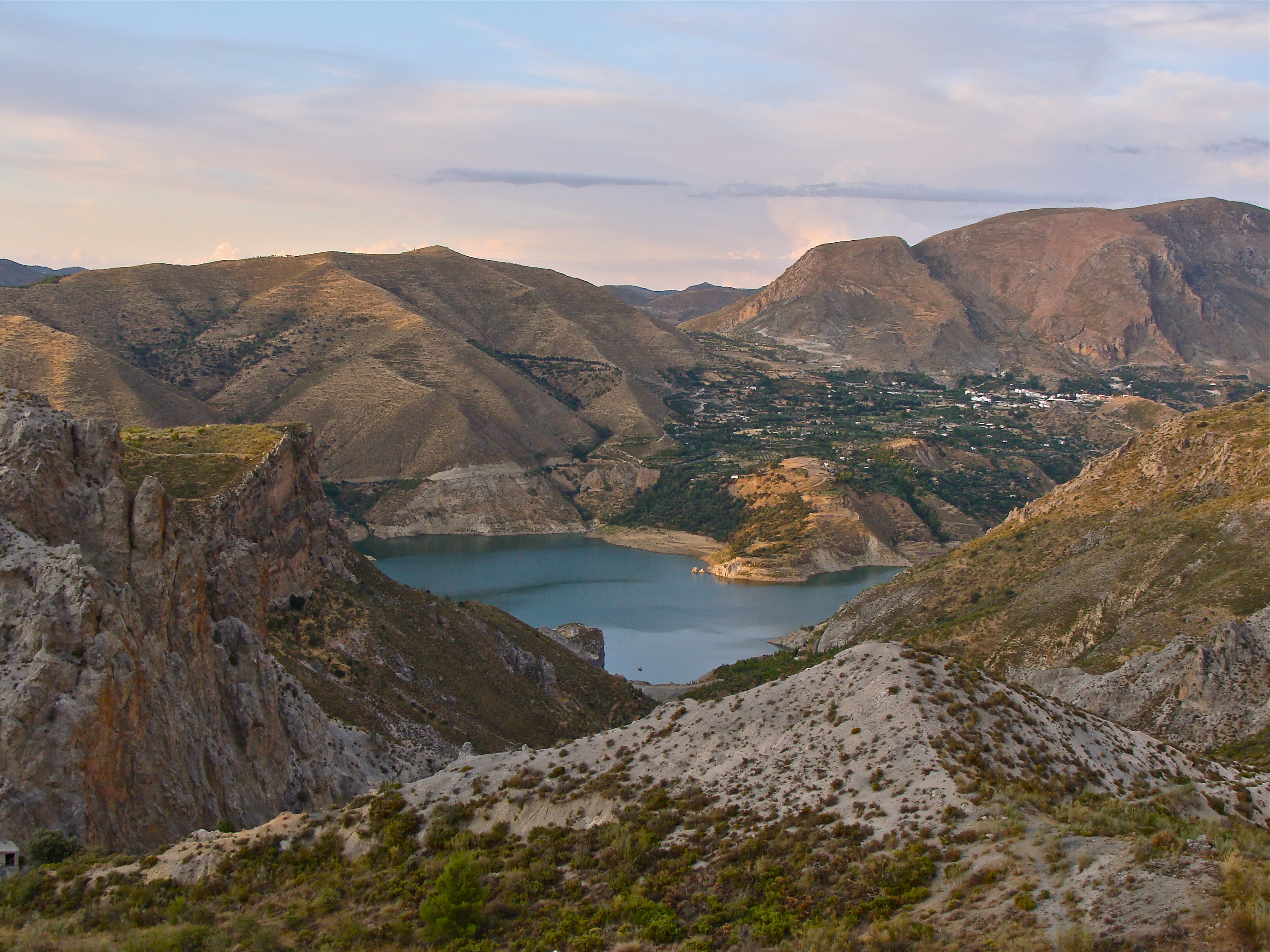 Embalse de Canales, Güejar Sierra, Sierra Nevada, Spain, on evening